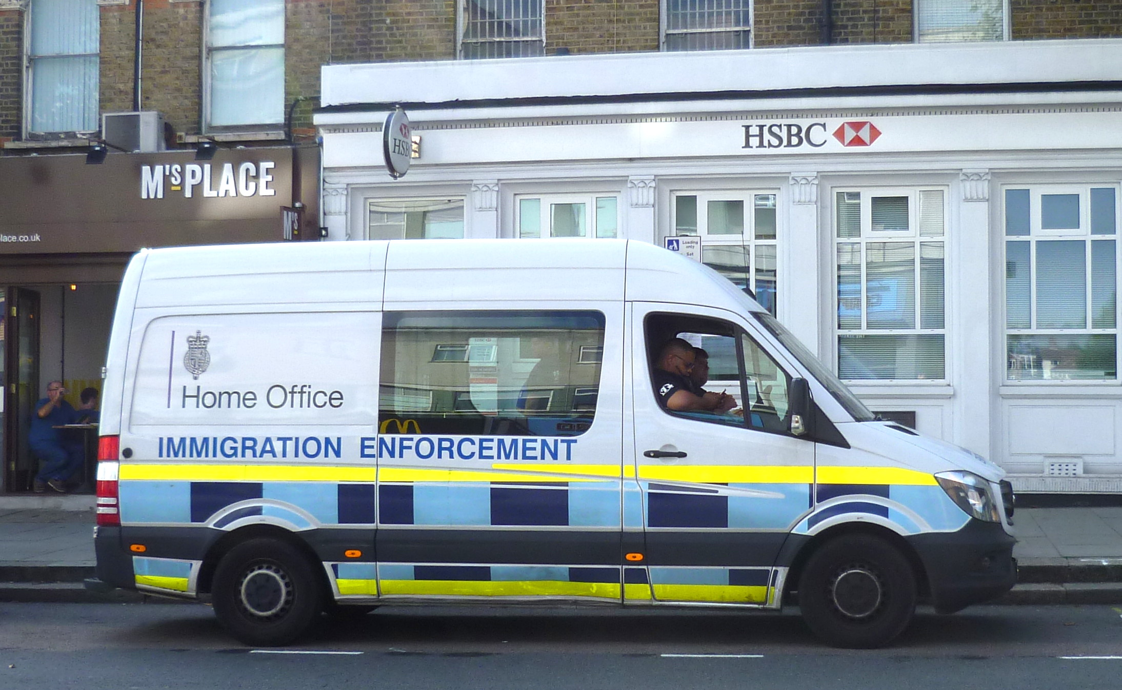 London